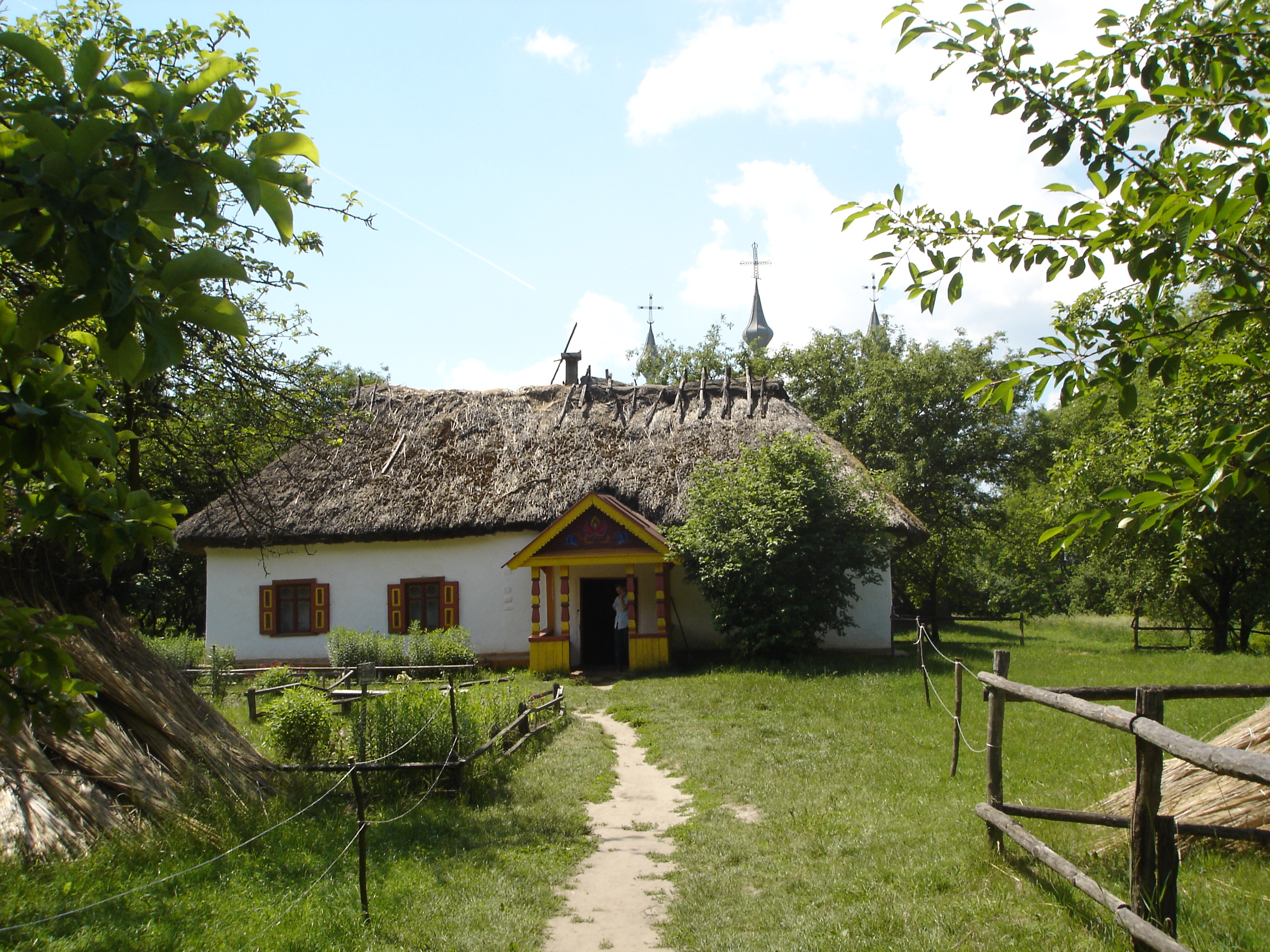 Old House of a whealthy Ukrainian farmer at the Museum of folk architecture and way of life of Middle Naddnipryanschina in Pereiaslav-Khmelnytskyi.